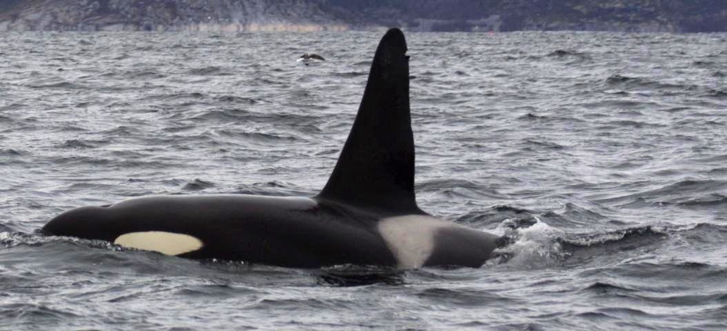 Orca near Tysfjord, Norway.